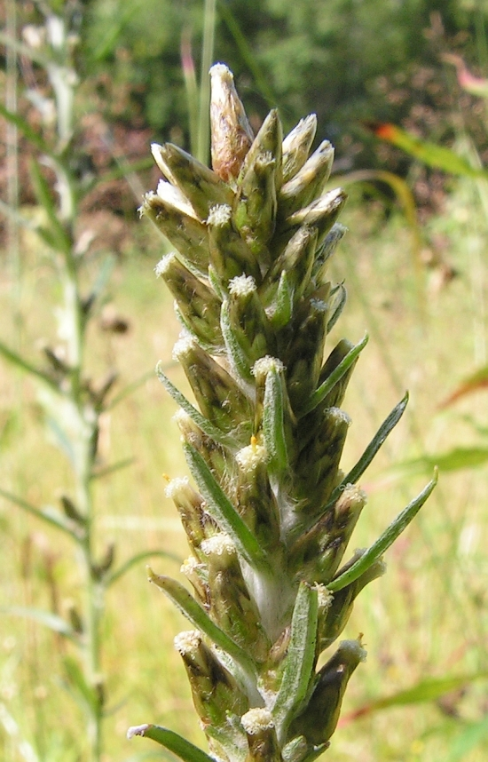 The inflorescence of Gnaphalium sylvaticum [syn. Omalotheca sylvatica]. Moscow region, Russia.